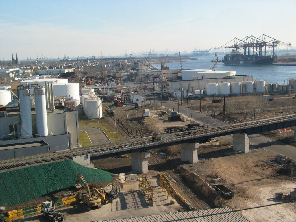 Looking north at the industrial park in southeastern Elizabeth, NJ. St Patrick's on far left; Jersey City in hazy distance center.